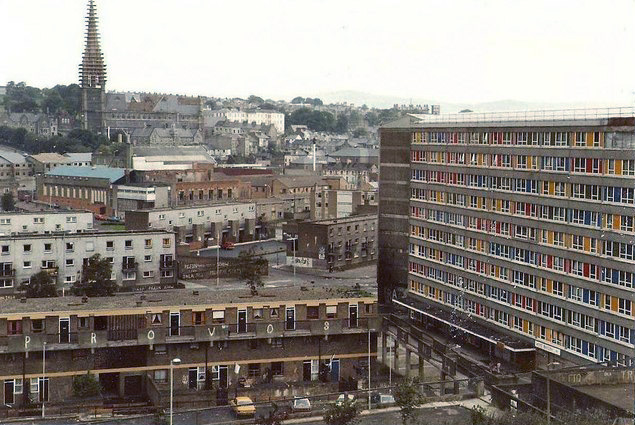 Rossville flats: Bogside The flats, once a landmark in Derry's Bogside, housed 178 families and were first occupied in 1966. This picture was taken in 1981, a few years before their demolition in '85.